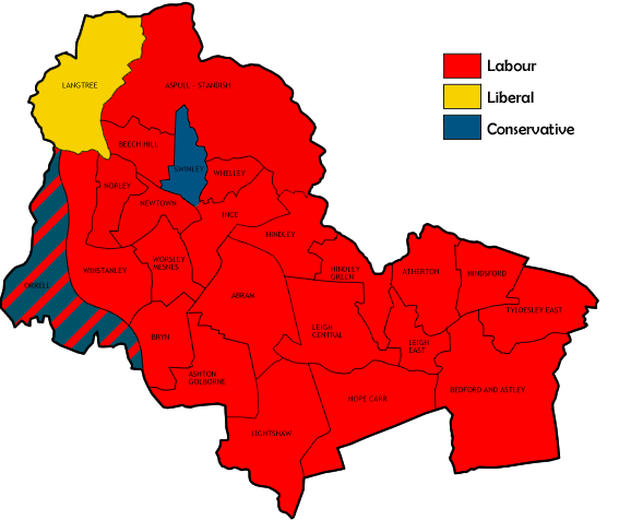 Wigan ward map with political colouring.